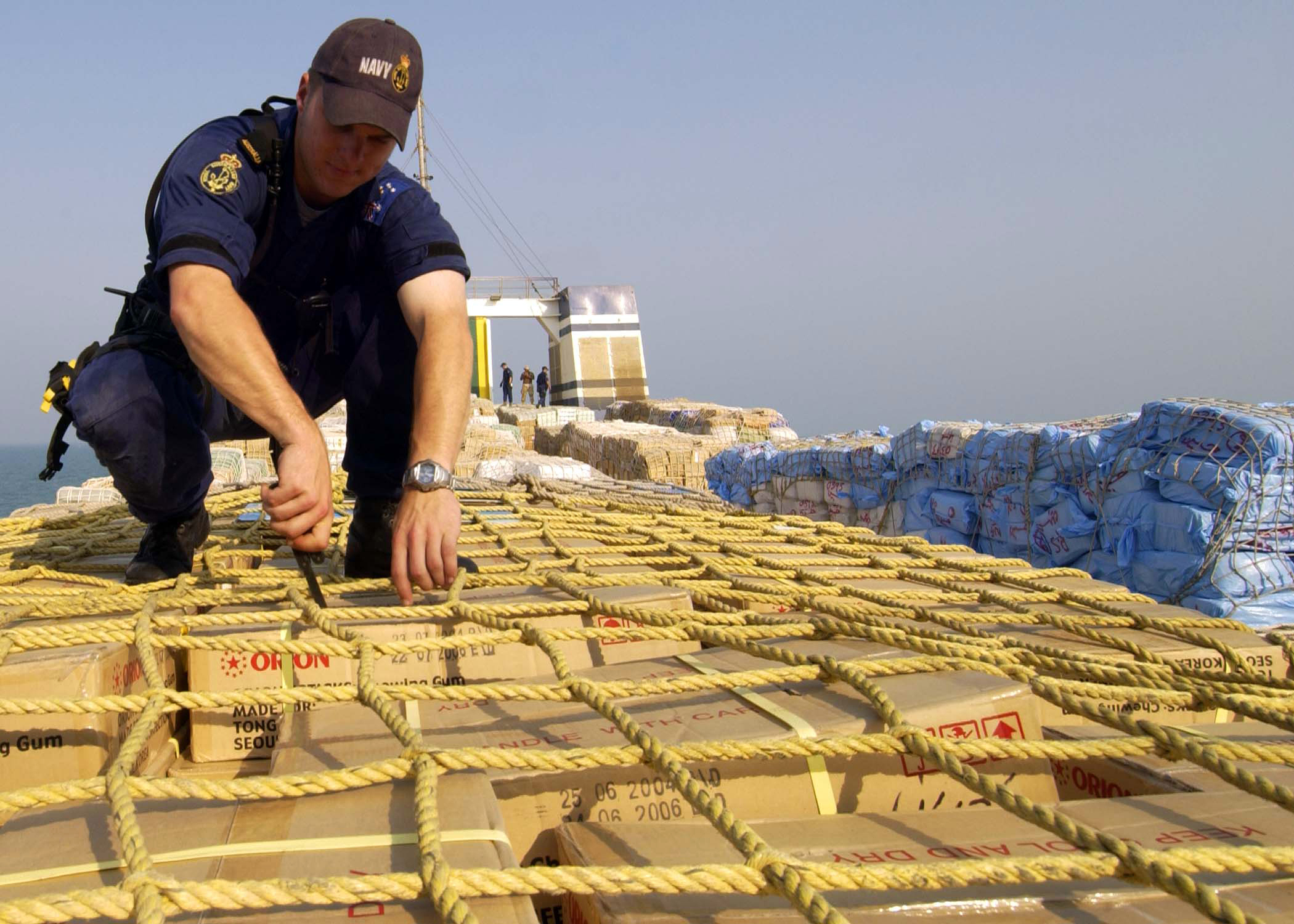 040930-N-7034S-007 North Arabian Gulf (Sept. 30, 2004) - A Royal Australian Navy Sailor opens up a box to verify the contents of a cargo stash while conducting Maritime Interception Operations (MIO) aboard a cargo ship in the North Arabian Gulf. The sailor is assigned to the Visit, Board, Search and Seizure (VBSS) team aboard the Royal Australian Navy frigate HMAS Adelaide (FFG 01). Adelaide is home ported in Garden Island, Western Australia and is conducting joint operations in the North Arabian Gulf under Commander Task Force Five Eight (CTF 58). U.S. Navy photo by Photographer's Mate 2nd Class Samuel W. Shavers (RELEASED)